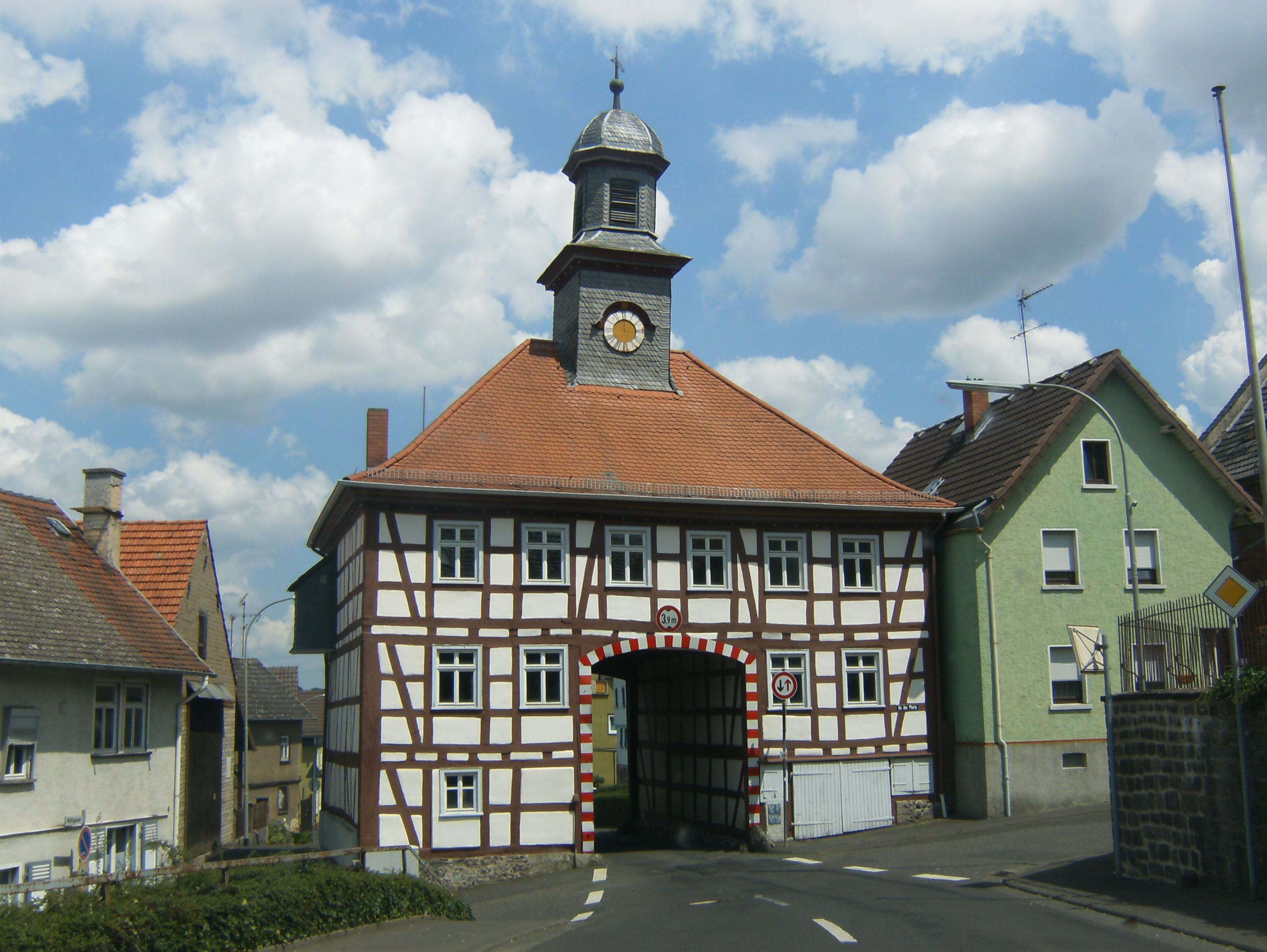 Lich-Ober-Bessingen (Hesse), portal building.